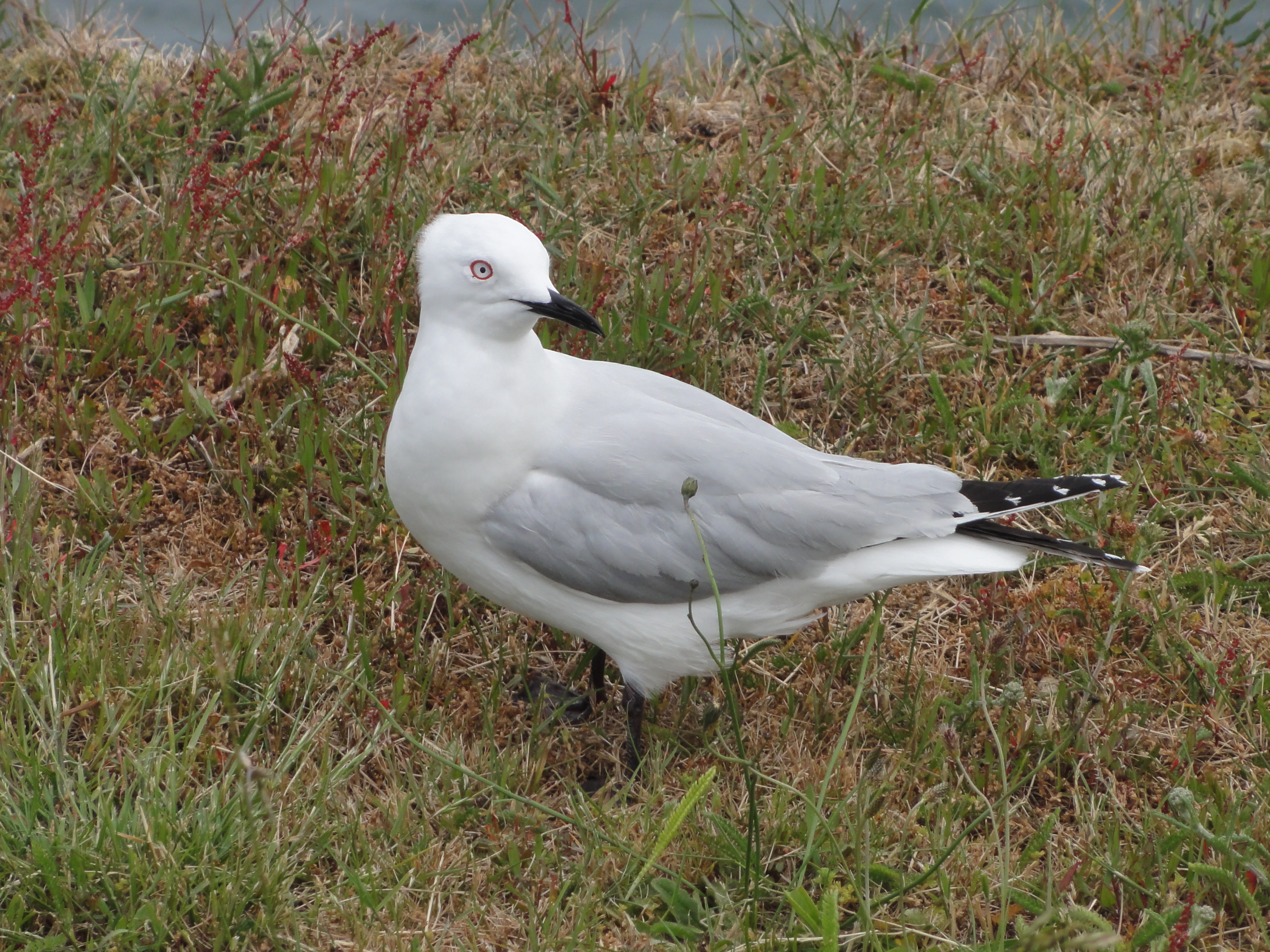 Chroicocephalus bulleri